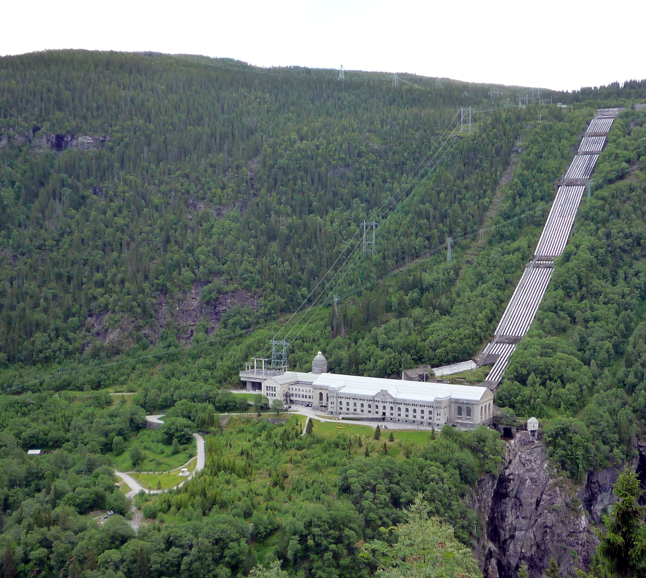 A classic view of the power station, from across the valley, almost as soon as it came into view.